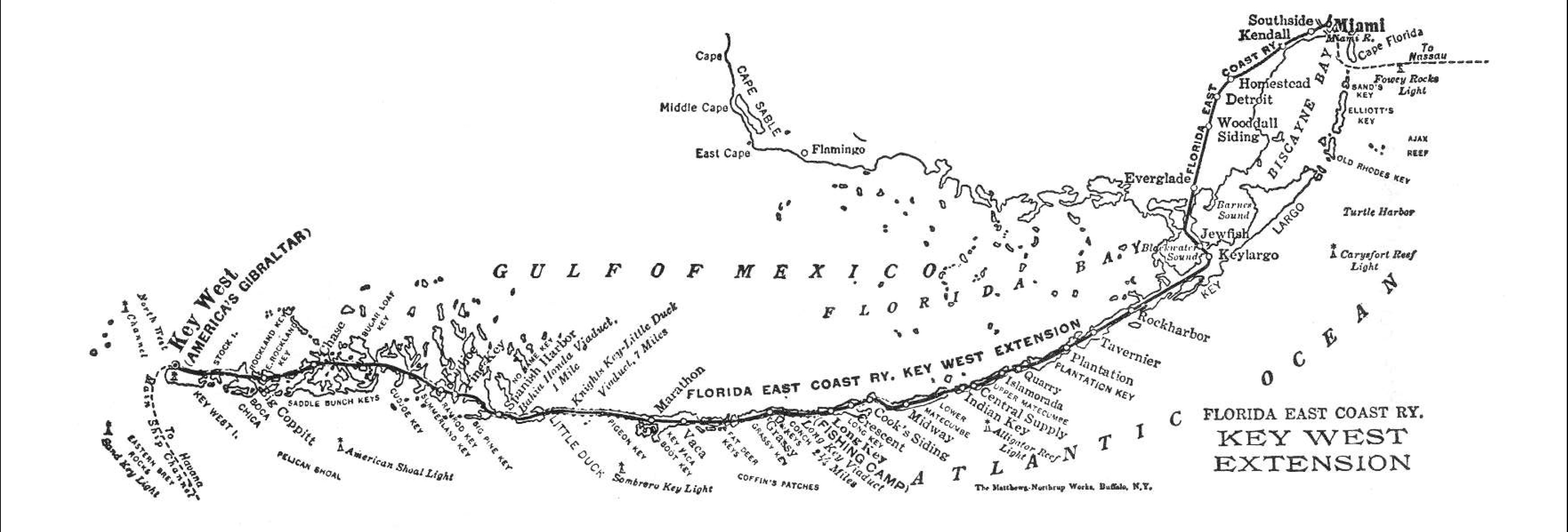 Overseas Railroad map